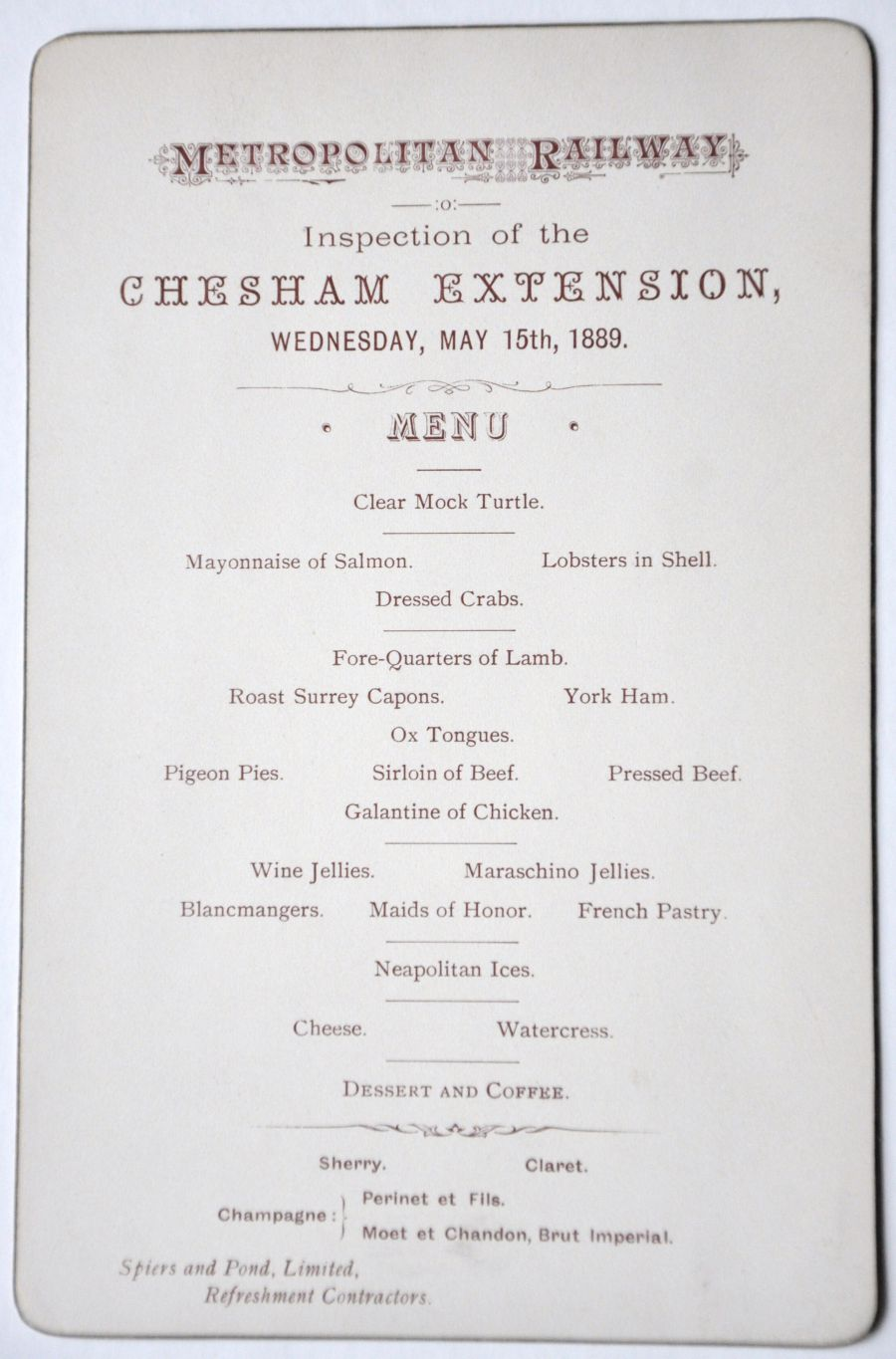 Celebration dinner menu with 20 dishes for Metropolitan Railway extension to Chesham 15th May 1889 by Spiers & Pond Ltd